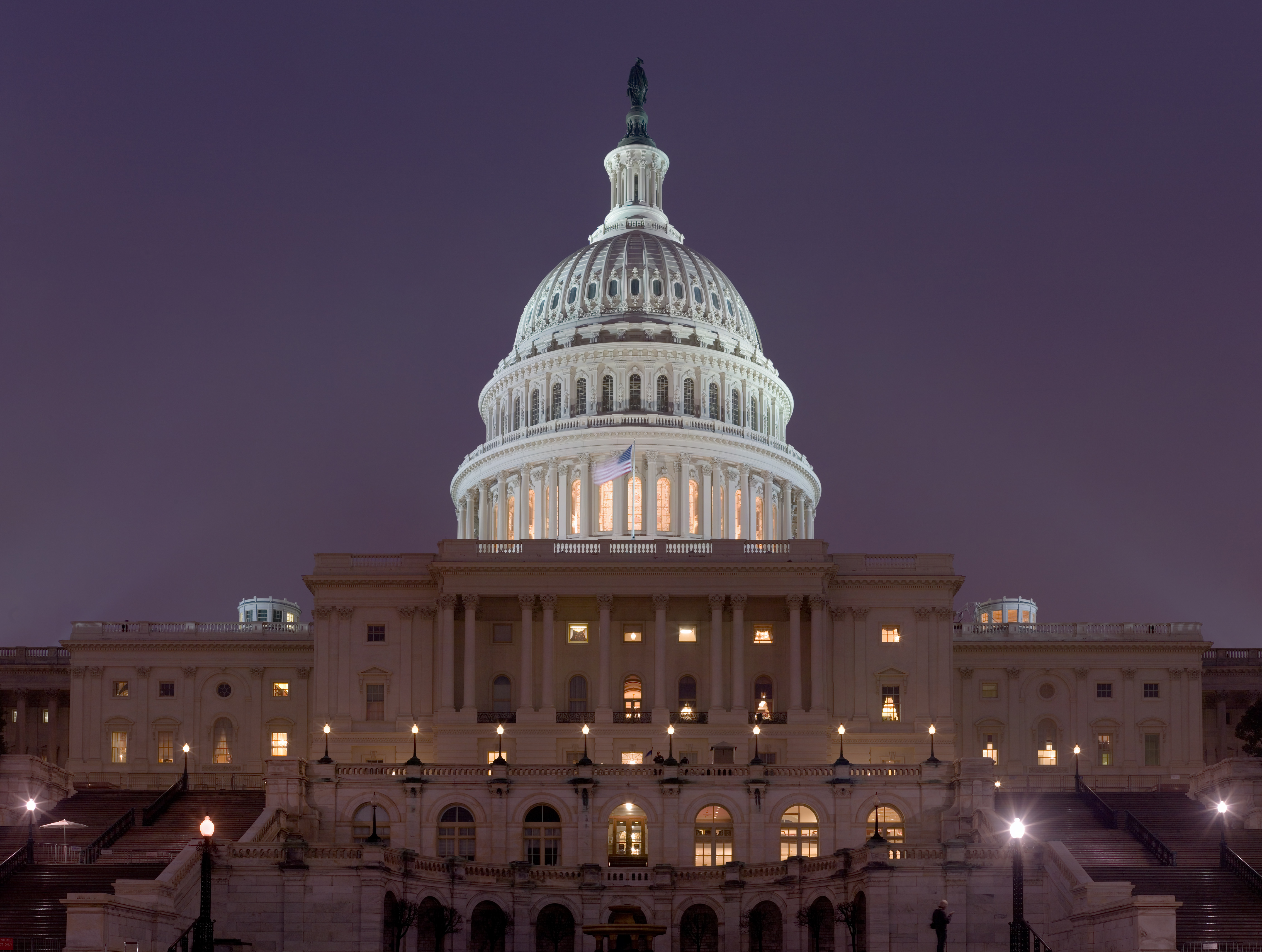 US Capitol at night. A mosaic image of around 10 segments taken with a Canon 5D and 24-105mm f/4L IS lens.